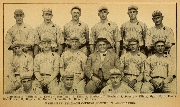 The 1916 Nashville Vols, a minor league baseball team from Nashville, Tennessee